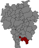 Location of el Brull in Osona